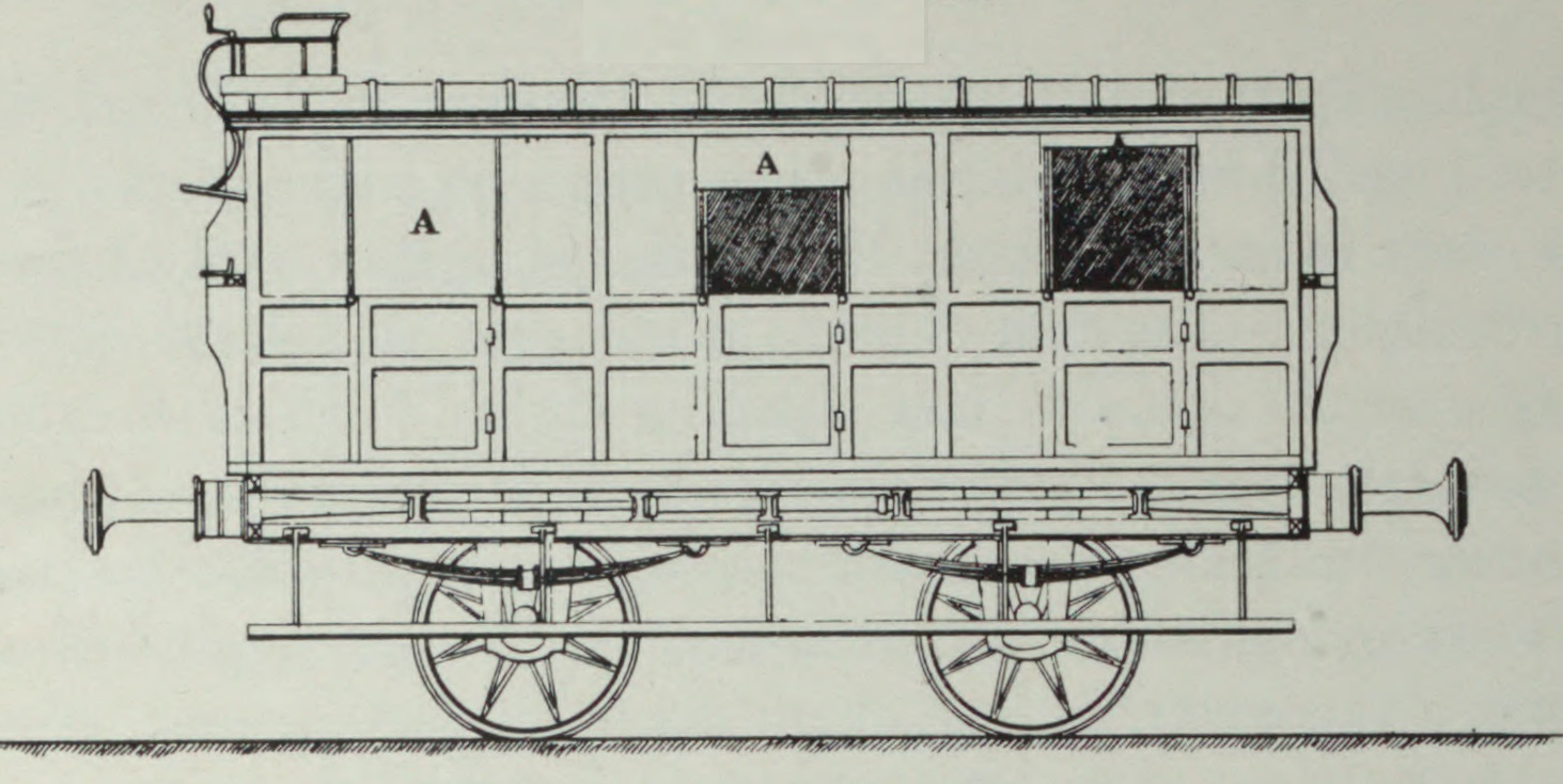 Sketch of a third class Newcastle and North Shields railway coach